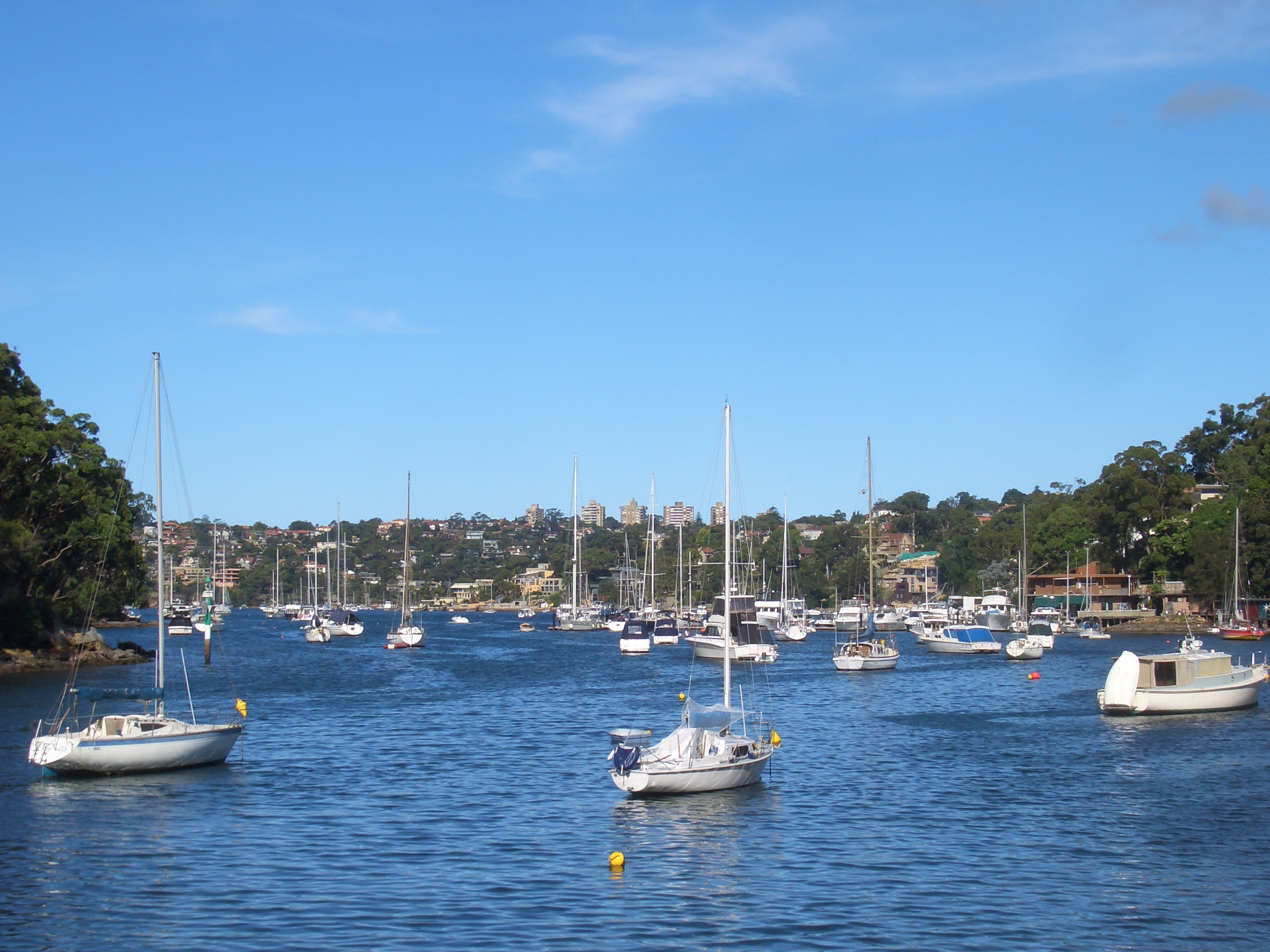 Willoughby Bay, Cammeray